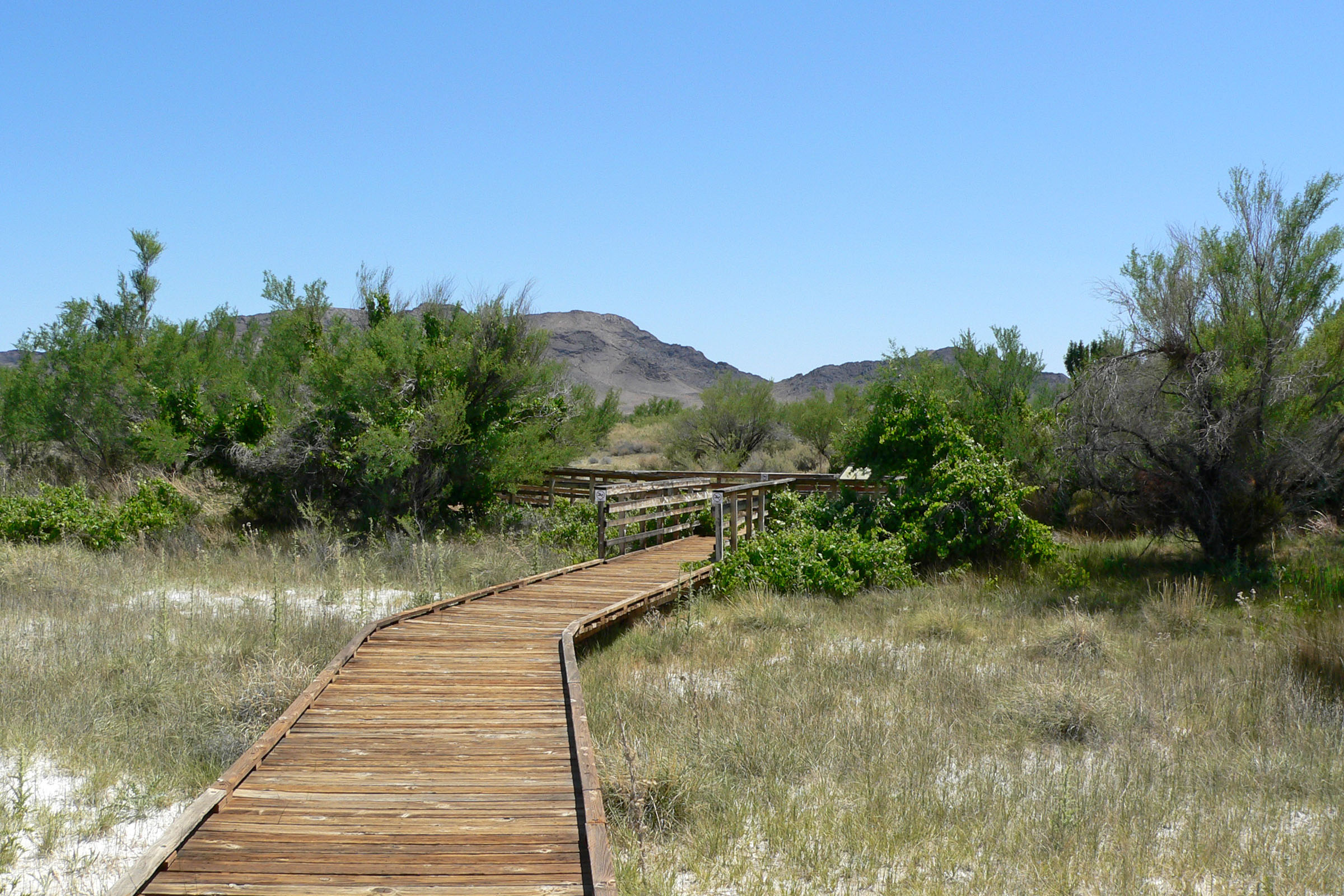 Boardwalk to Crystal Spring, Ash Meadows National Wildlife Refuge, southern Nevada.